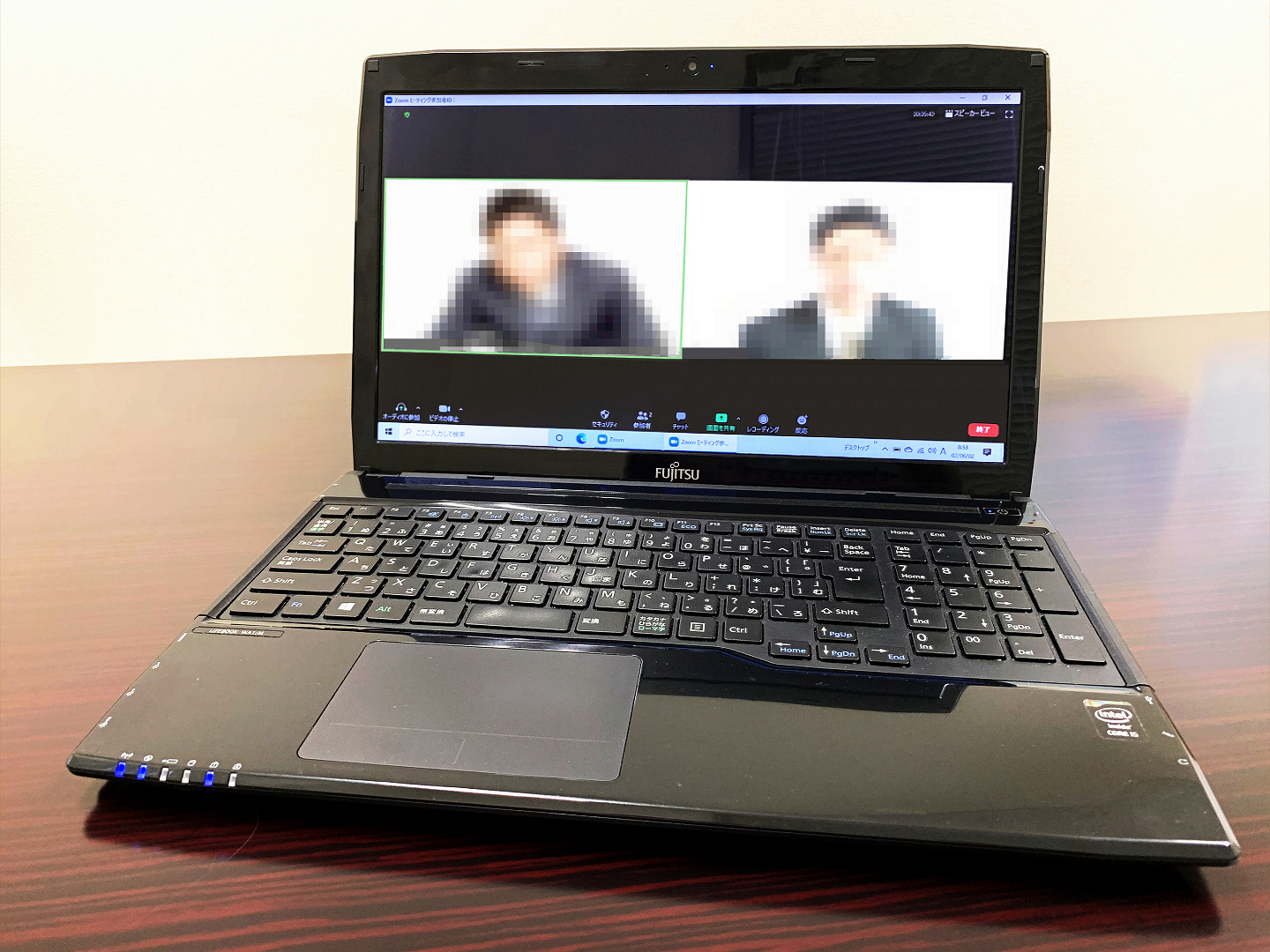 Video Conference Using Laptop